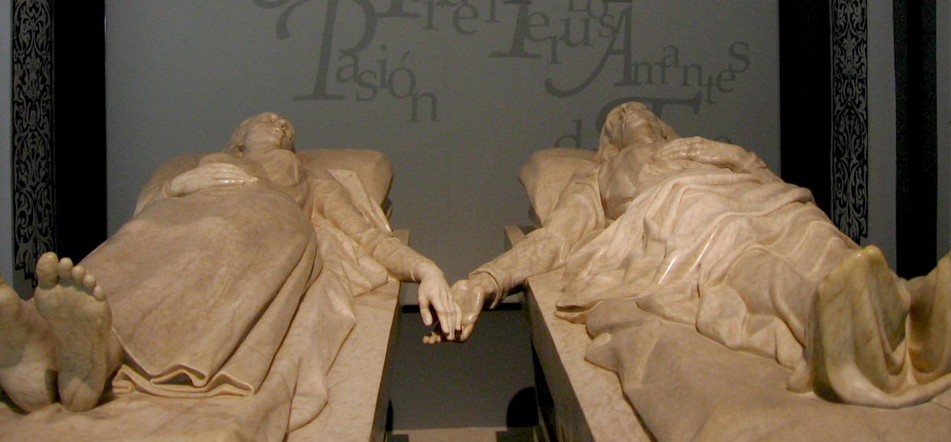 Tumba de los Amantes de Teruel / Tomb of the Lovers of Teruel.